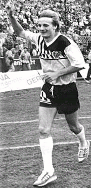 Title: Dynamo Dresden - 1. FC Union Berlin 5:0 Factual corrections and alternative descriptions are encouraged separately from the original description. Additionally errors can be reported at this page to inform the Bundesarchiv. Original historic description: ADN-ZB-Häßler- -3-6-89-ba-Dresden: Hier Frank Lieberam